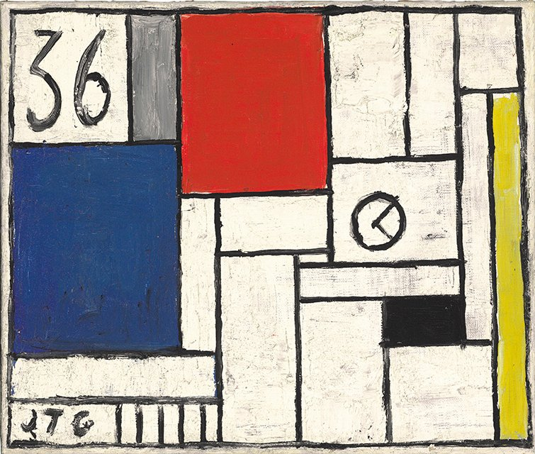 Constructive Clock by Joaquín Torres García, 1936. oil on canvas, 30.2 x 35.6 cm.